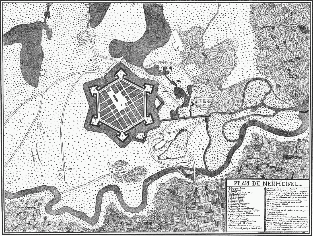 Plans of the big fortress of Neuhausel (Nové Zámky, Érsekújvár)